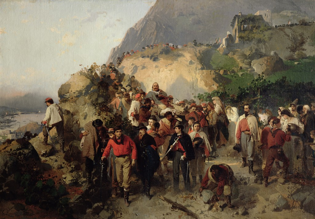 Credit: The Injured Garibaldi (1807-82) in the Aspromonte Mountains (oil on canvas), Induno, Gerolamo, (1827-90) / Museo Civico Rivoltello, Trieste, Italy / Alinari / The Bridgeman Art Library ALG 165816 Image number: The Injured Garibaldi (1807-82) in the Aspromonte Mountains (oil on canvas) Title: Induno, Gerolamo, (1827-90) Primary creator: Italian Nationality: Museo Civico Rivoltello, Trieste, Italy Location: Alinari Credit: oil on canvas Medium: Giuseppe Garibaldi blesse dans l'Aspromonte; Description: 19th (C19th) Date: Europe Categories: Horizontal